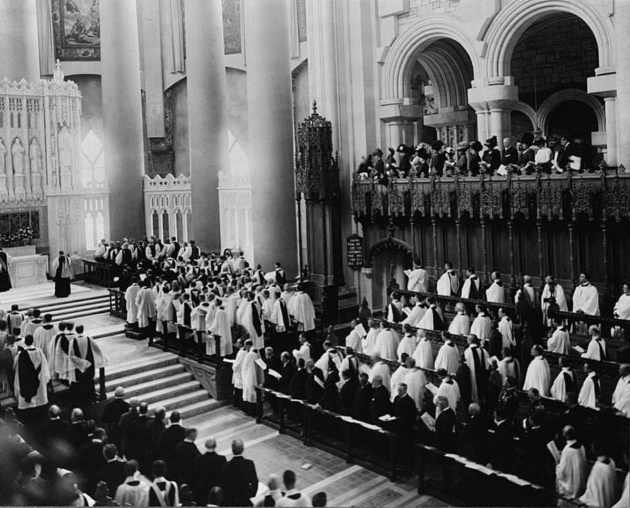 Consecration of the Cathedral of St. John the Divine, New York City